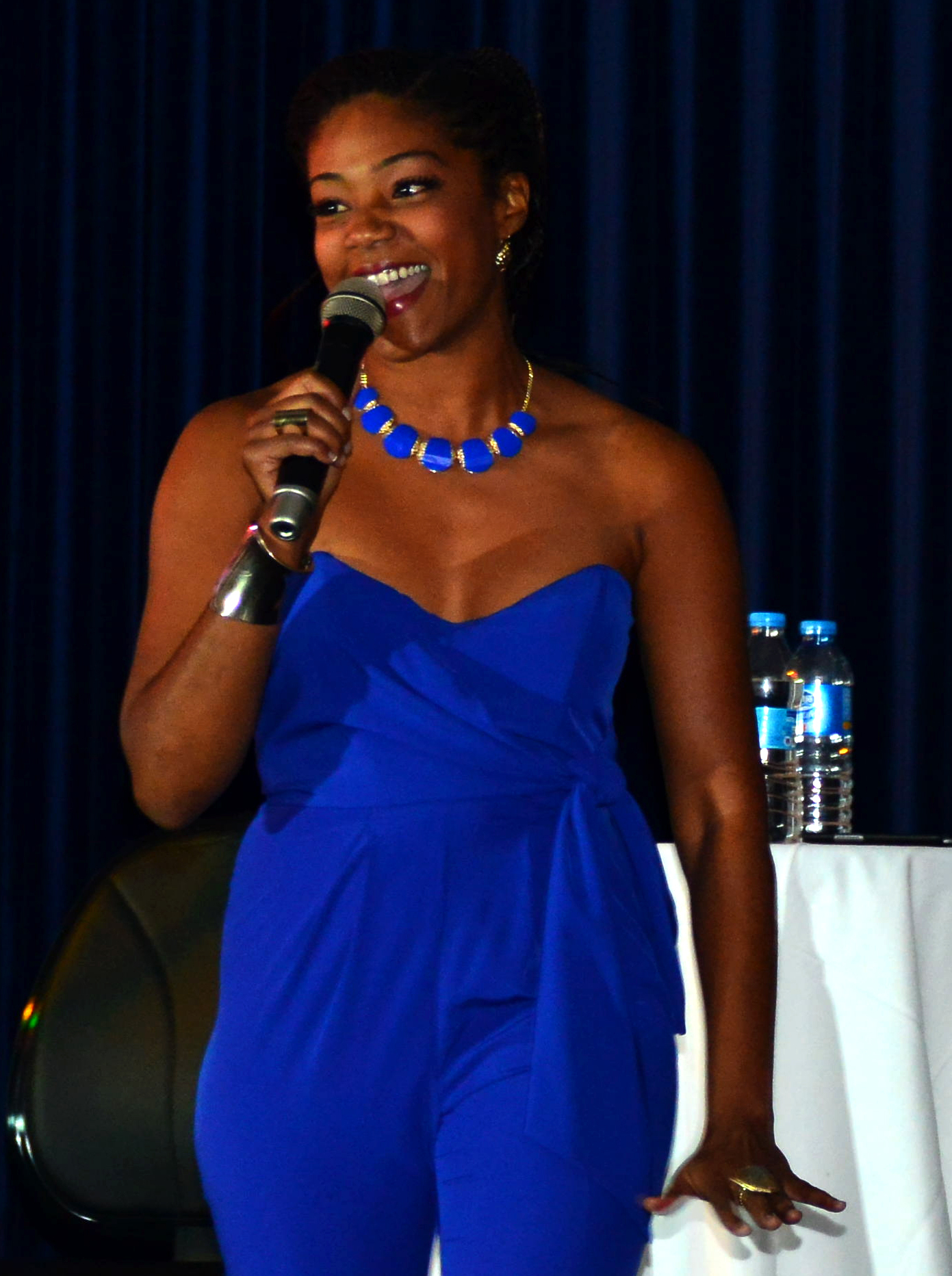 Tiffany Haddish, comedian, tells jokes to audience members during a performance October 21, 2013, at Incirlik Air Base, Turkey. Her act was part of a tour sponsored by Armed Forces Entertainment to provide comedic relief to service members overseas.